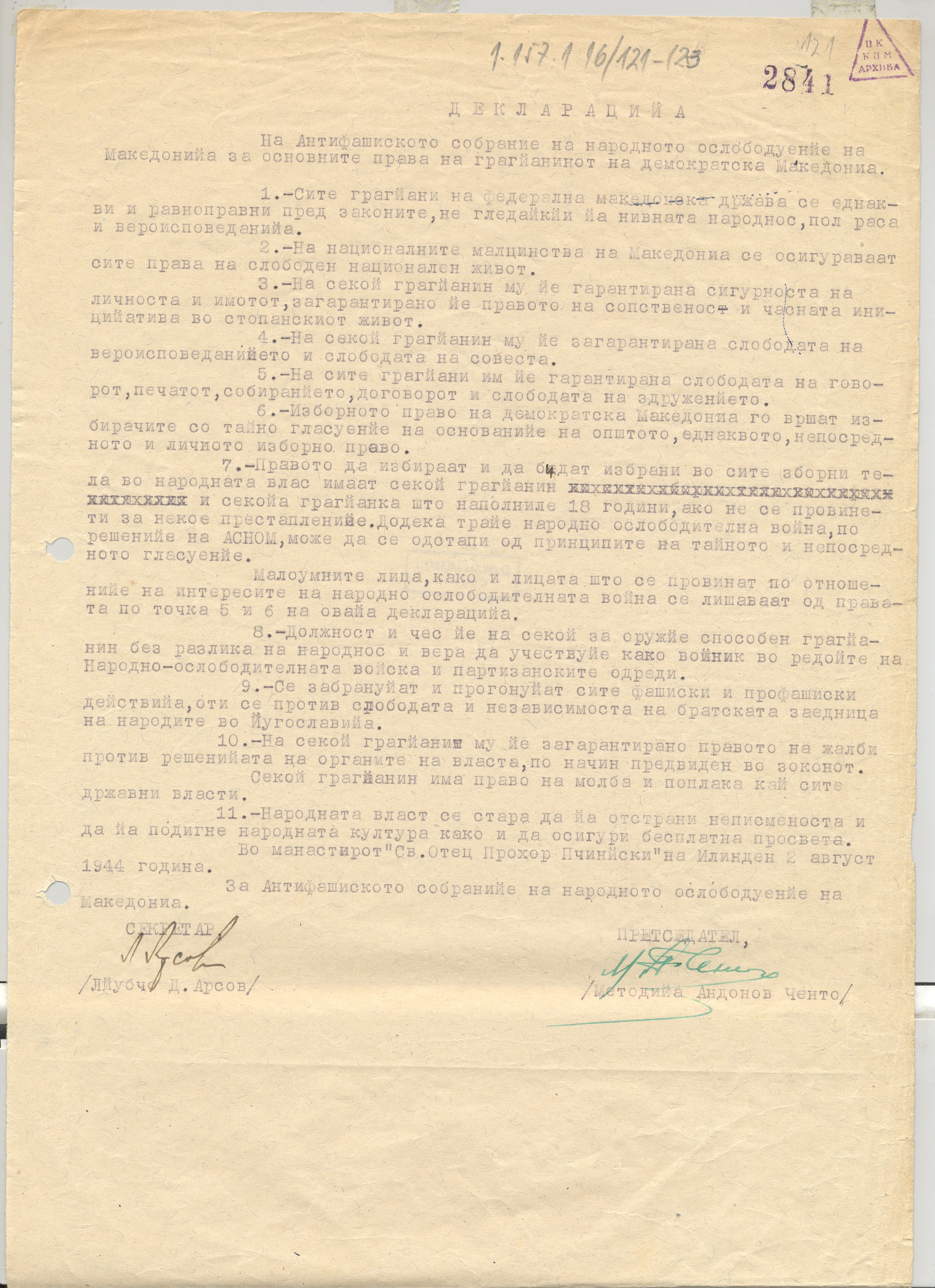 The declaration of ASNOM on the fundamental rights of the citizens of Federal Macedonia (August 2, 1944) This media file is produced by Wikipedian in Residence in Category:Wikipedian in Residence at DARM in 2016.